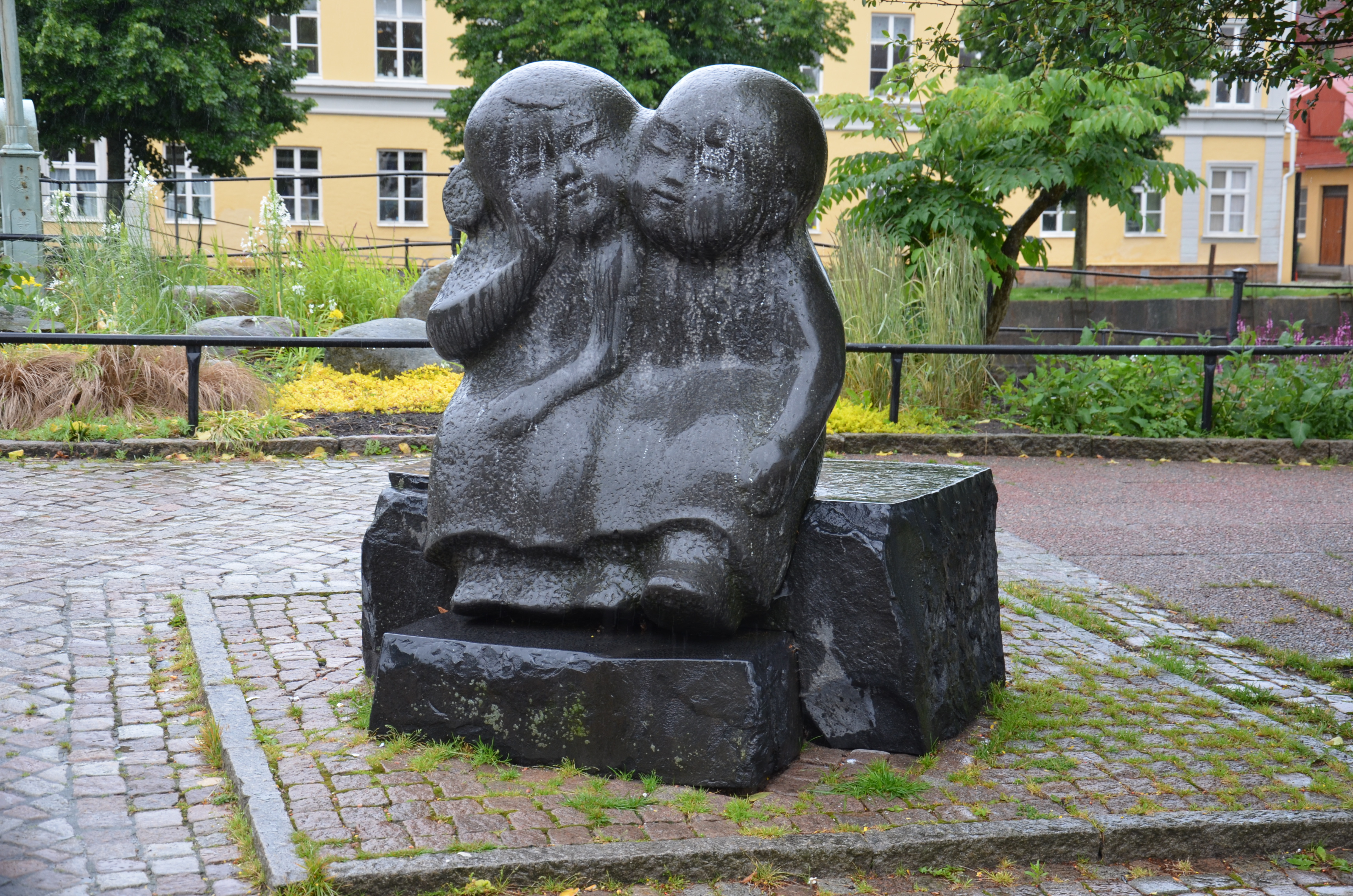 Friendship, sculpture by Japanese artist Eiichi Ishida, given to Uddevalla Municipality by Okazaki Municipality in Japan 1998